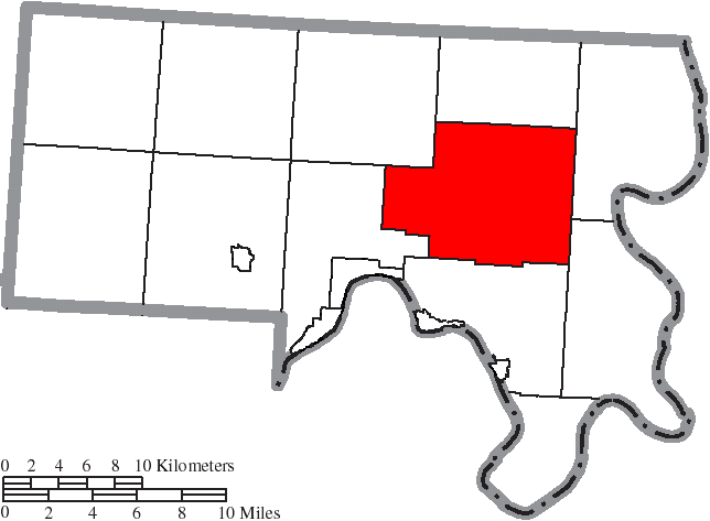 Map of the municipal and township boundaries of Meigs County, Ohio, United States, as of the 2000 census, with the location of Chester Township highlighted. Township borders are shown only in unincorporated areas in order to differentiate incorporated and unincorporated areas more clearly.